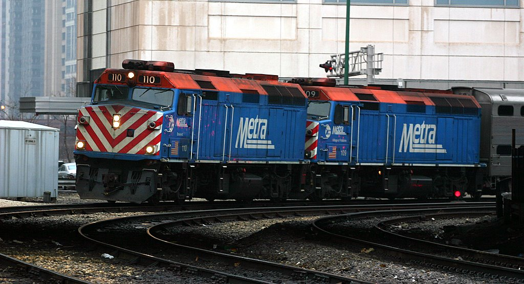 Rain Rain / Doubleheader north out of Chicago Union Station Metra (METX) 110, EMD F40PH